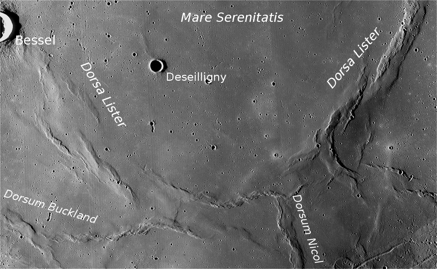 Dorsa Lister and Dorsum Nicol with craters Bessel and Deseilligny (detail of LROC - WAC global moon mosaic)